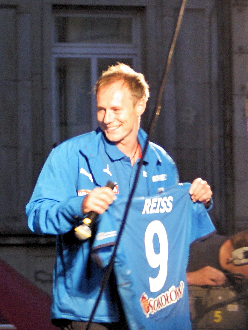 Piotr R., football player (team: Lech Poznań)